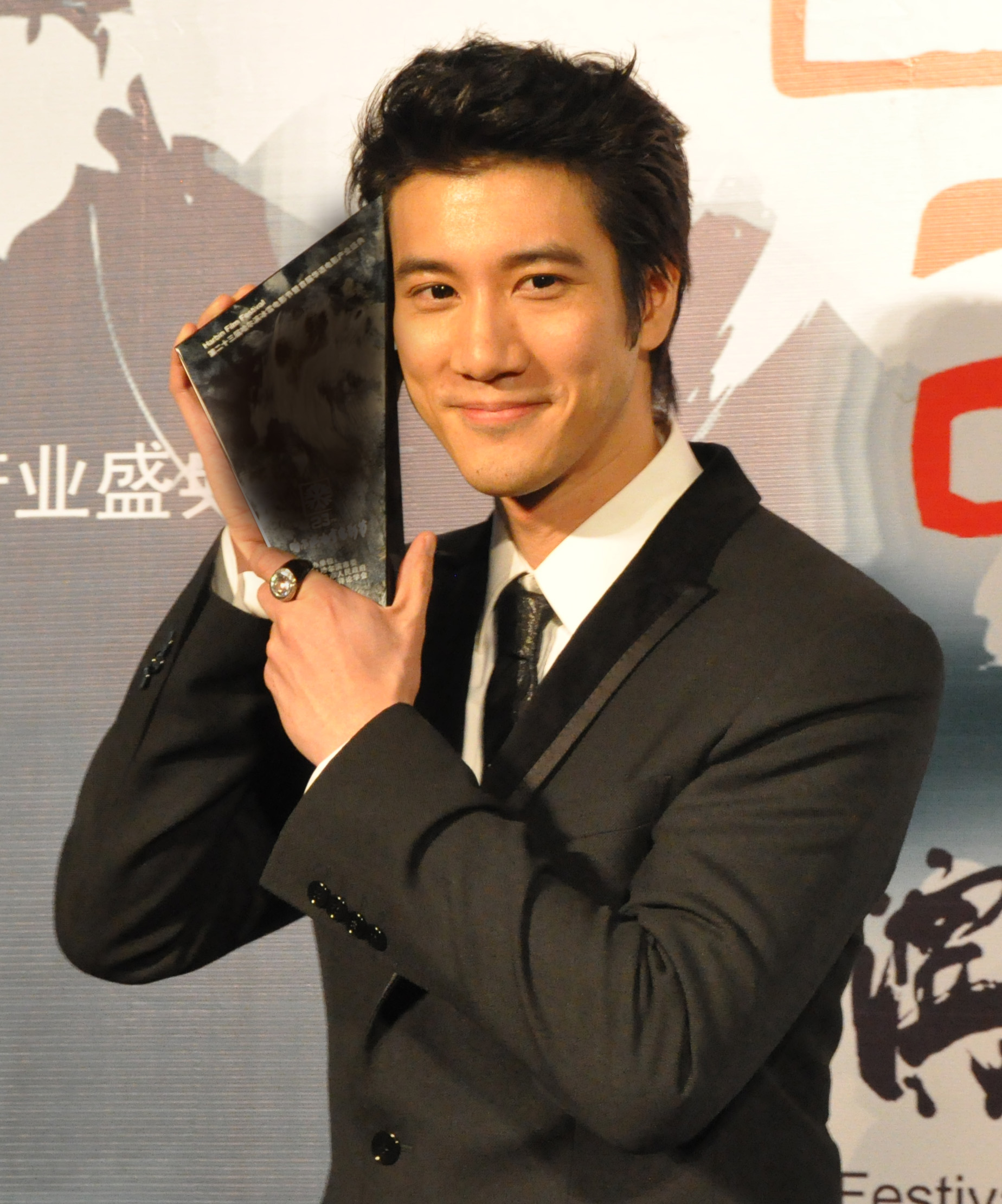 Wang after winning "Best New Director" at Harbin Film Festival January 16, 2011